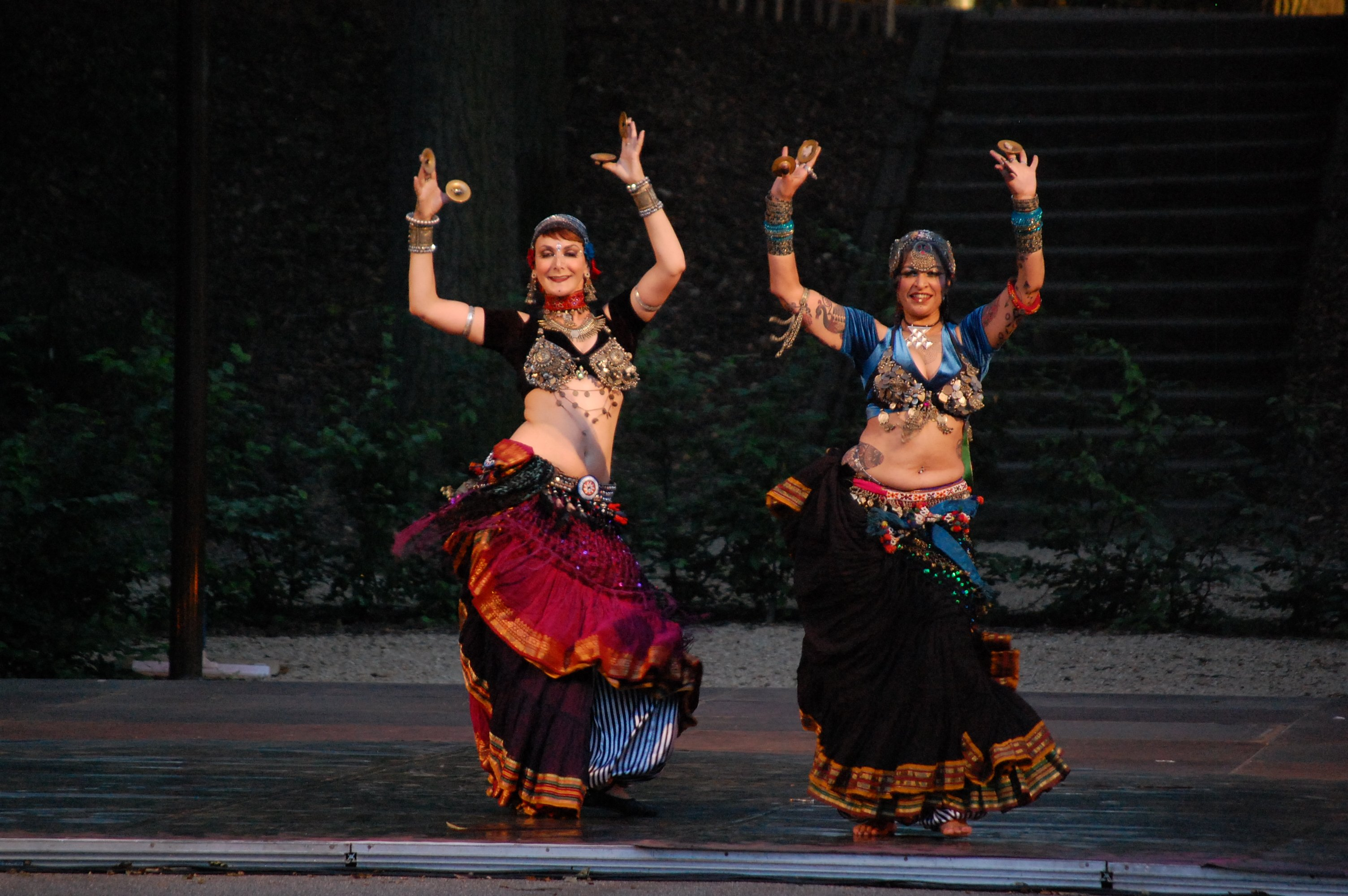 Fat Chance Belly Dance, at the Tribal Umrah festival, Rennes August 2012